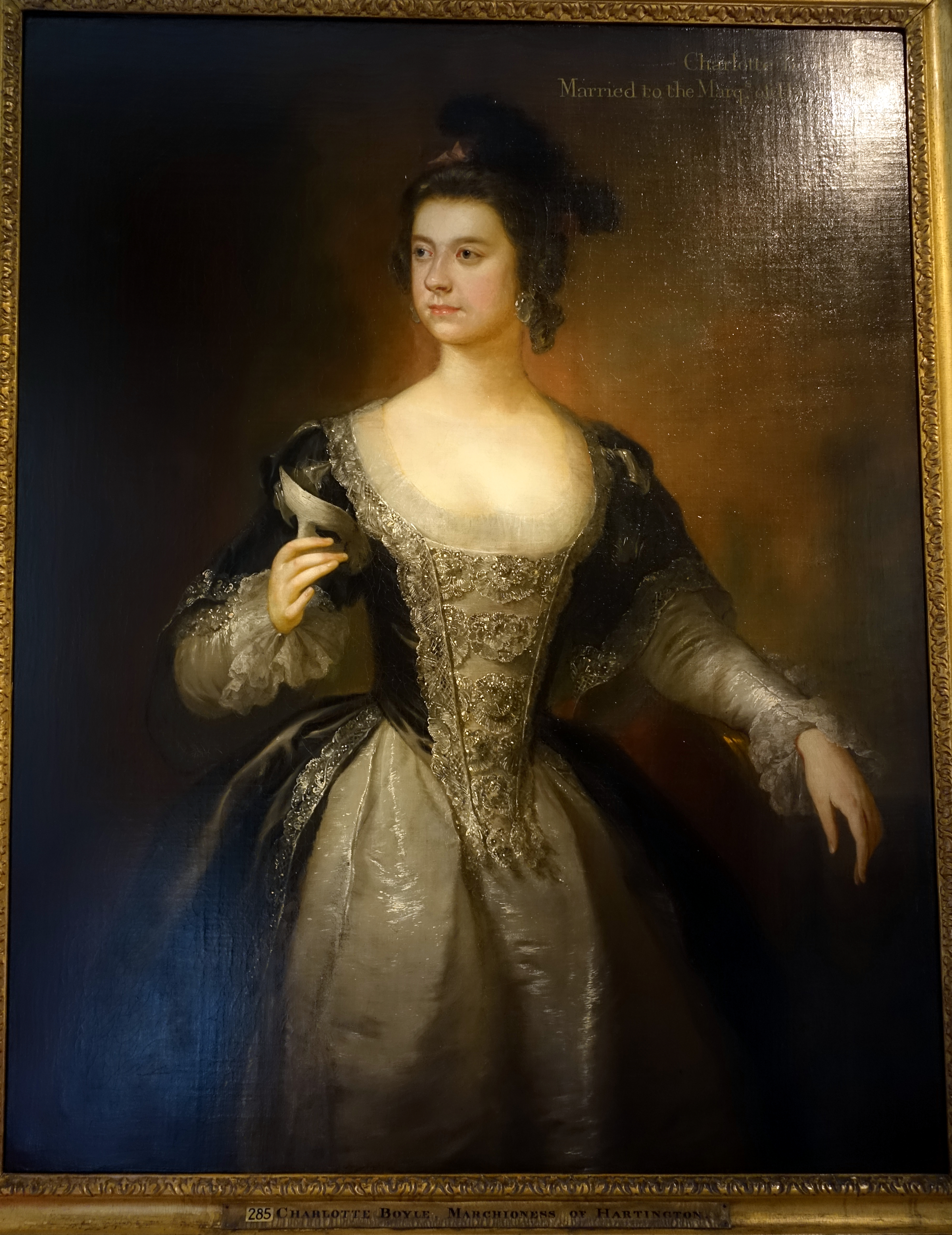 Item displayed in the West Sketch Gallery, Chatsworth House - Derbyshire, England.